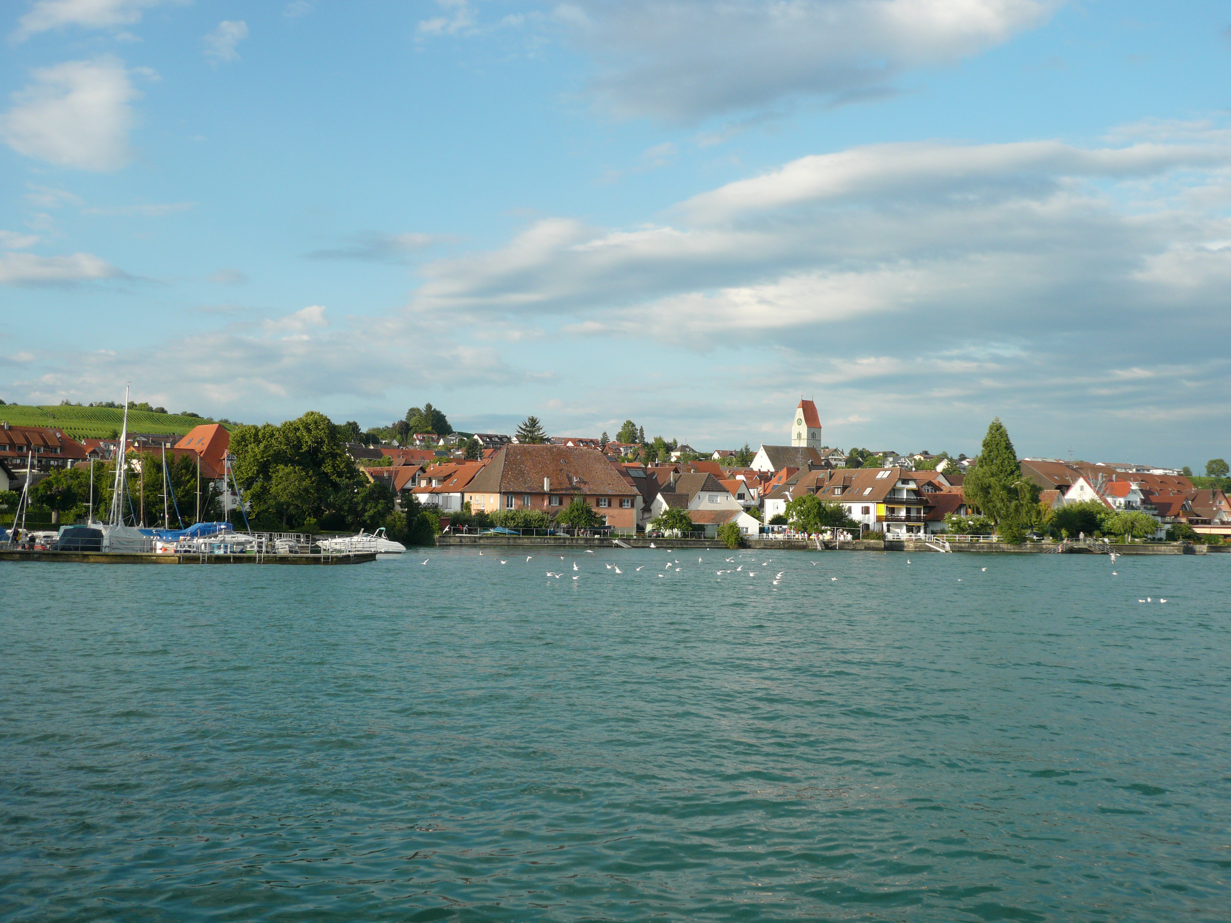 Hagnau, view from Lake Constance